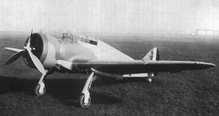 The Italian Breda Ba.64 ground-attack aircraft prototype, MM-250